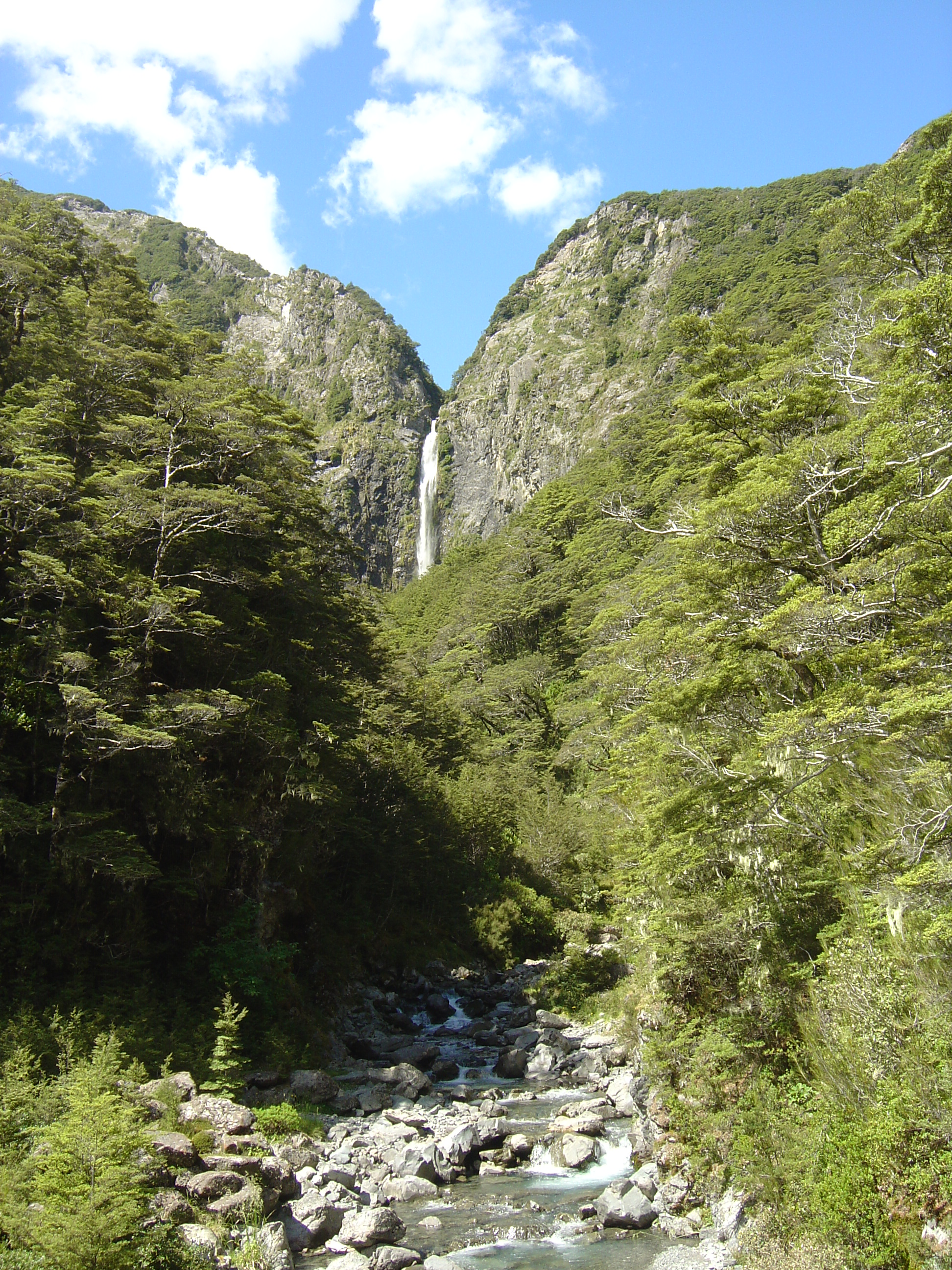 Devils Punchbowl Waterfall at Arthurs Pass in New Zealand.